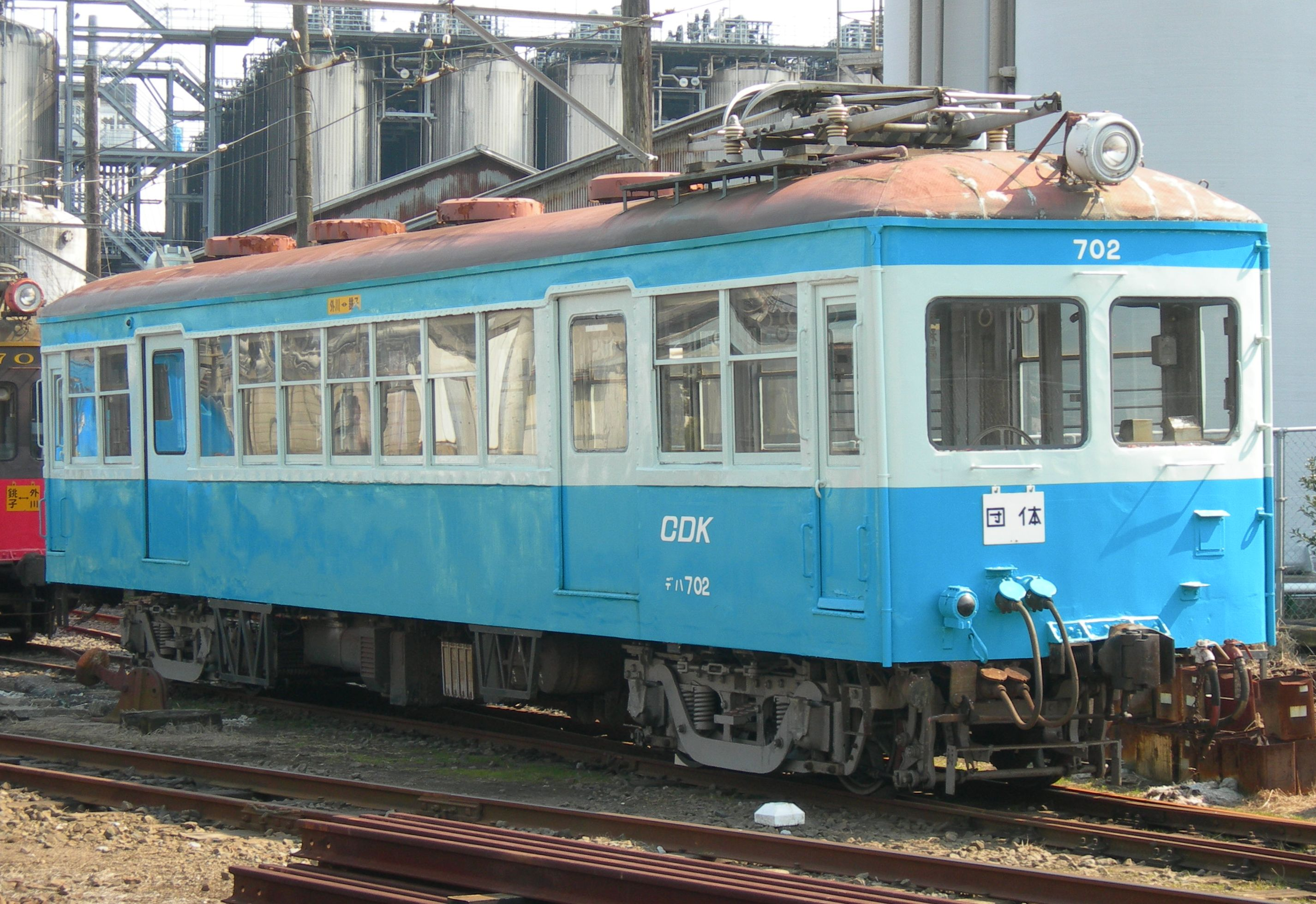 Choshi Electric Railway 700 series EMU car DeHa 702 at Nakanocho Depot